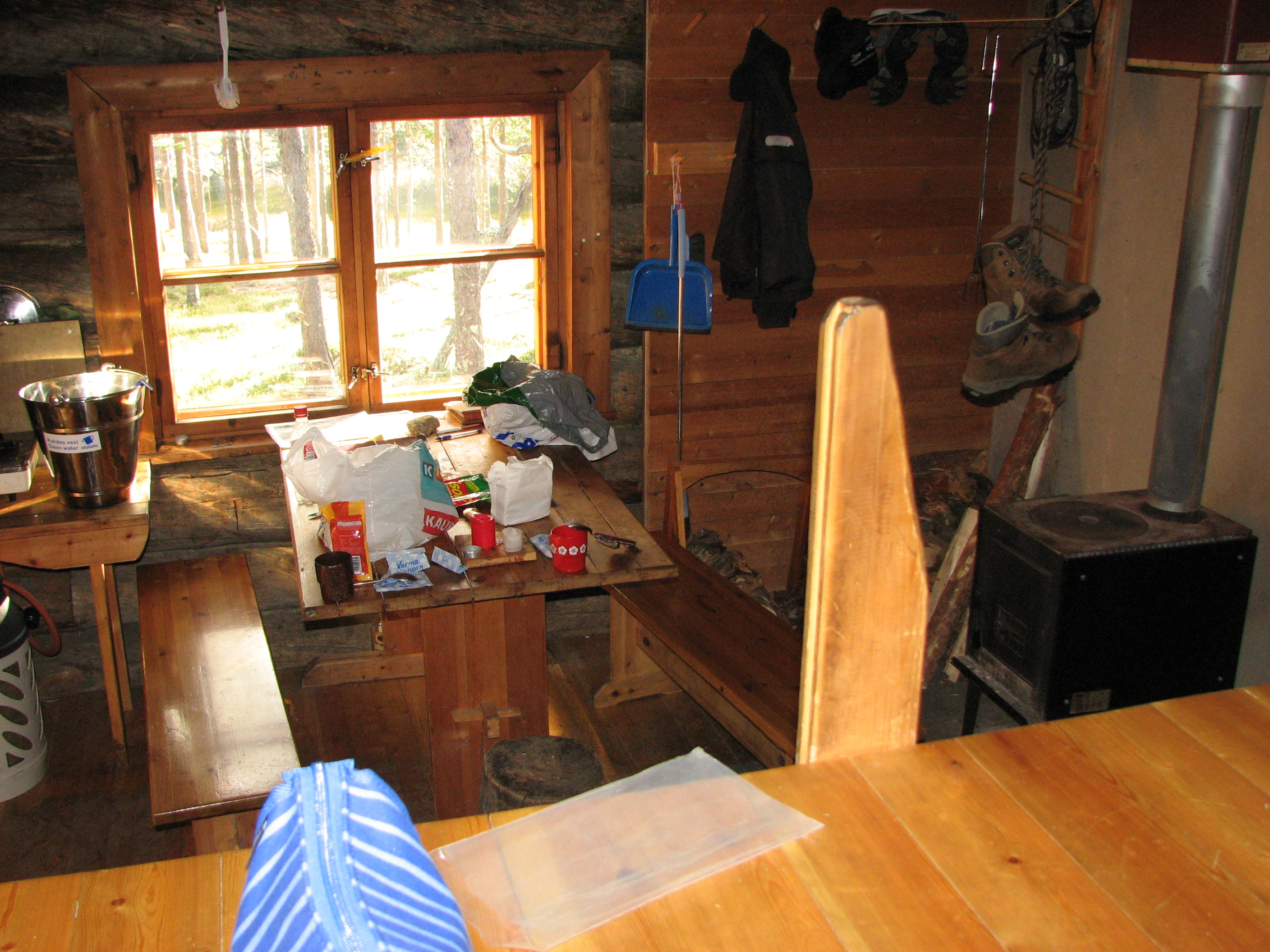 Jyrkkävaara wilderness hut dining table and the stove.